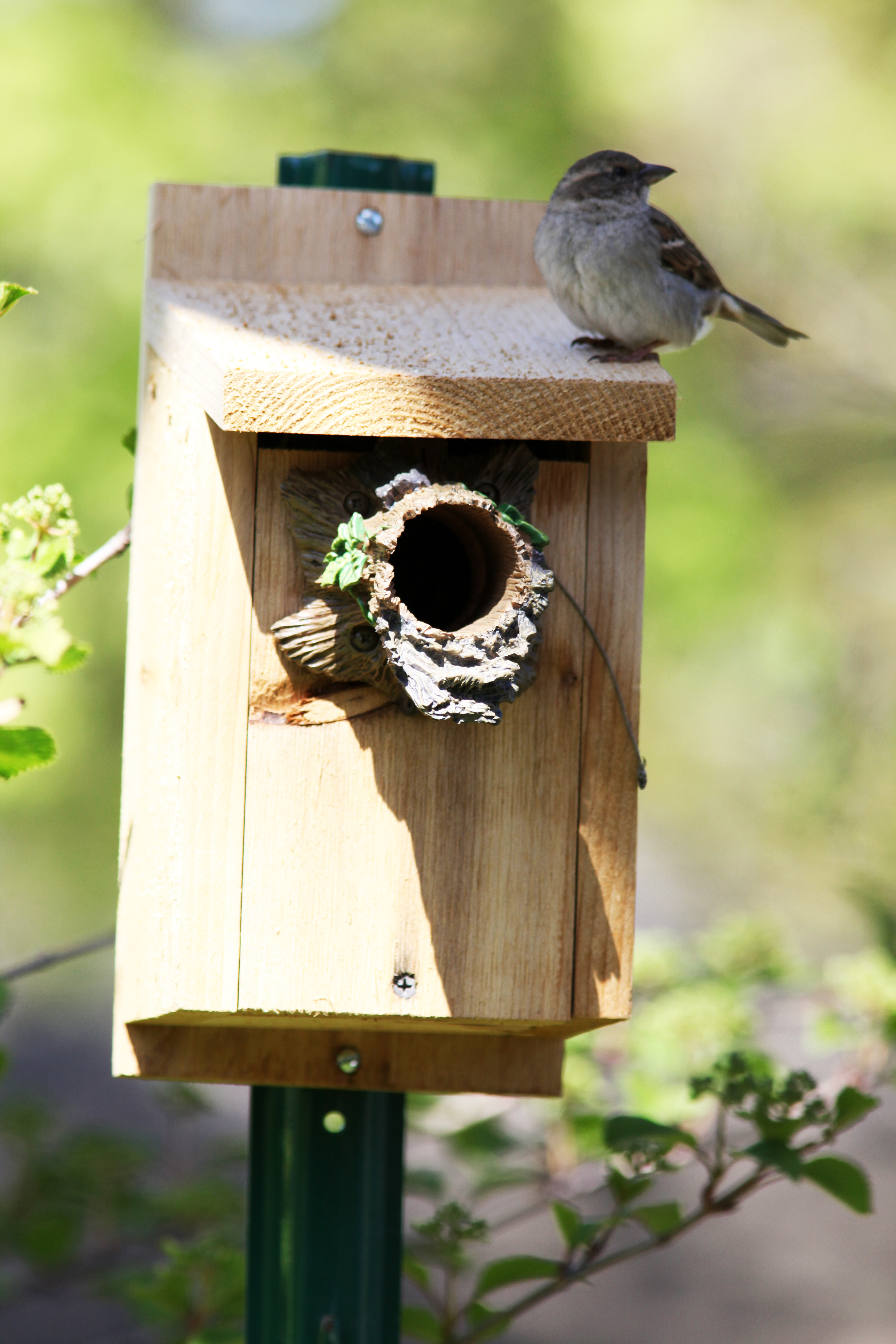 A female House Sparrow perching on its nest in a birdhouse.